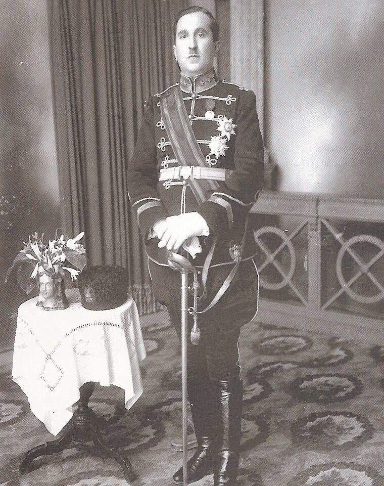 Kostaq Kotta served as Prime Minister of Albania from 1936-1939